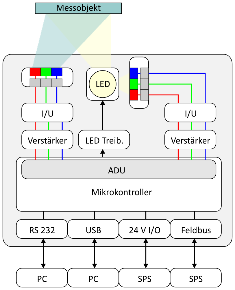 Block diagram of color sensor